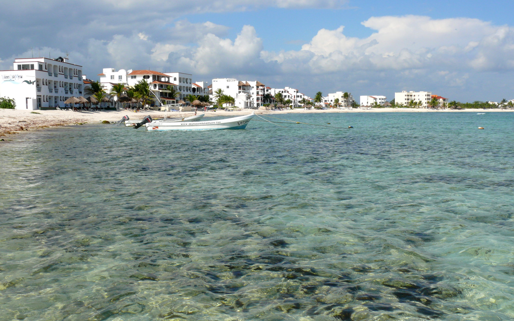 Looking northeast from Half-moon Bay. Photo taken with a Panasonic Lumix DMC-FZ50 in the town of Akumal in Quintana Roo, Mexico.